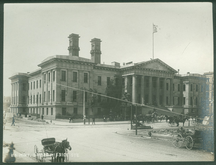 Title: U.S. Mint, 5th and Mission St's. Alternative Title: U.S. Mint, 5th and Mission Streets Creator: Stoddard [attrib.] Date: 1906 Part Of: San Francisco earthquake Physical Description: 1 photographic print: gelatin silver; 15 x 20 cm. File: ag1982_0186sx_65_usmint_sm_opt.jpg Rights: Please cite DeGolyer Library, Southern Methodist University when using this file. A high-resolution version of this file may be obtained for a fee. For details see the web page. For other information, . For more information, View U.S. West: Photographs, Manuscripts, and Imprints